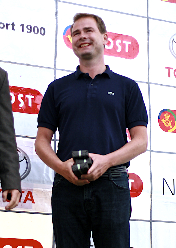 Mayor of Aarhus Kommune, Nicolai Wammen.